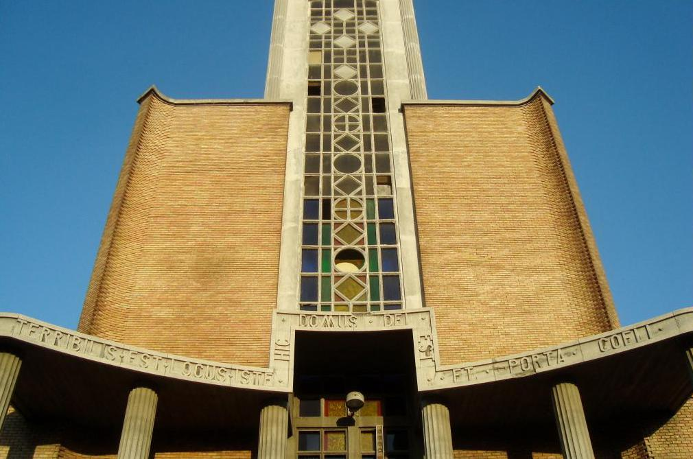 Christ the King Church, Monterrey, Nuevo Leon, Mexico – Terribilis est locus iste hic domus Dei est et porta caeli